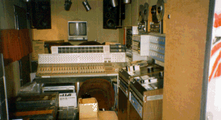 Photo taken by Cantos Music Foundation